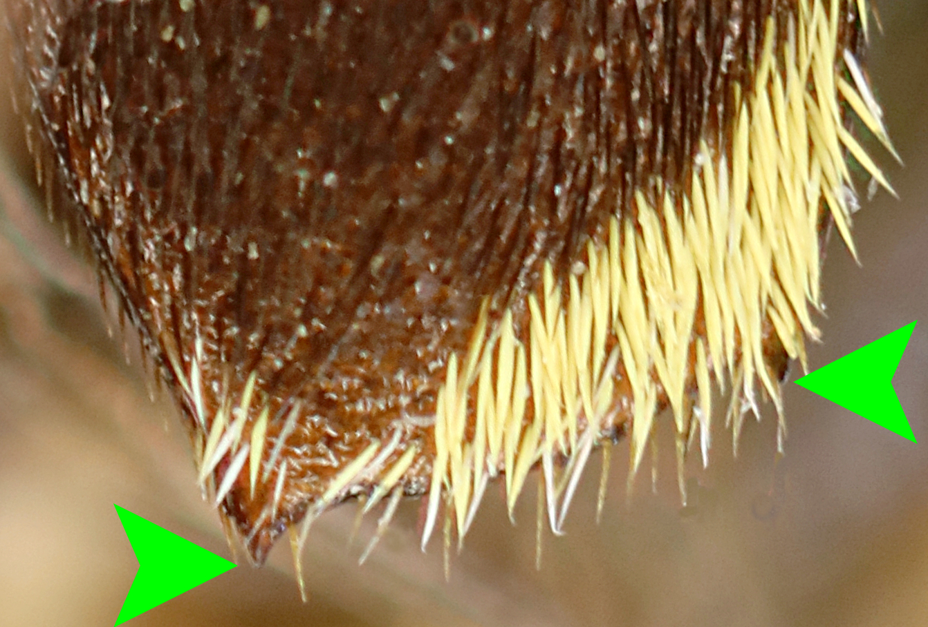 Apex of left elytron of Xylotrechus antilope